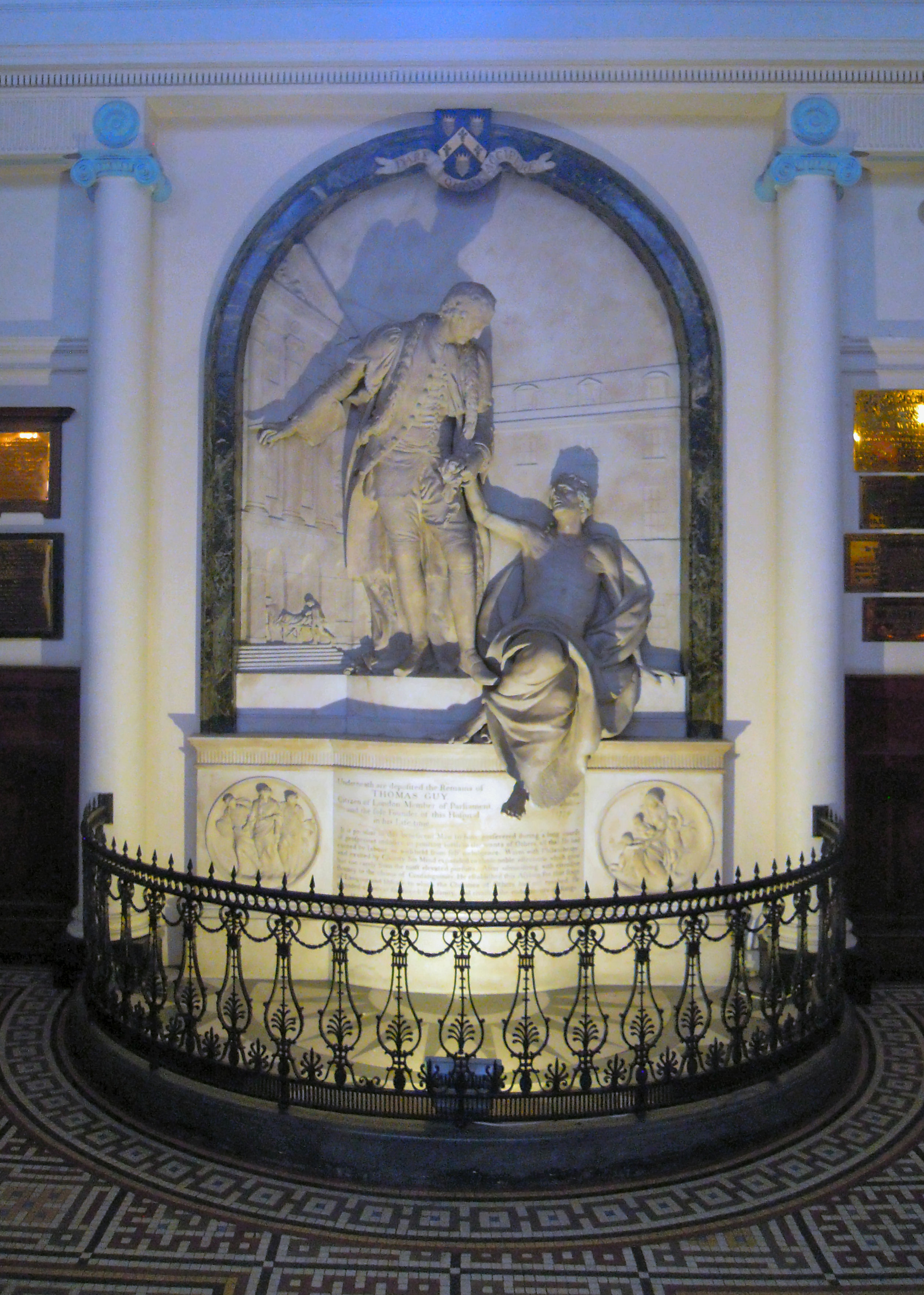 Memorial to Thomas Guy above his tomb in the crypt of the Chapel at Guy's Hospital in London